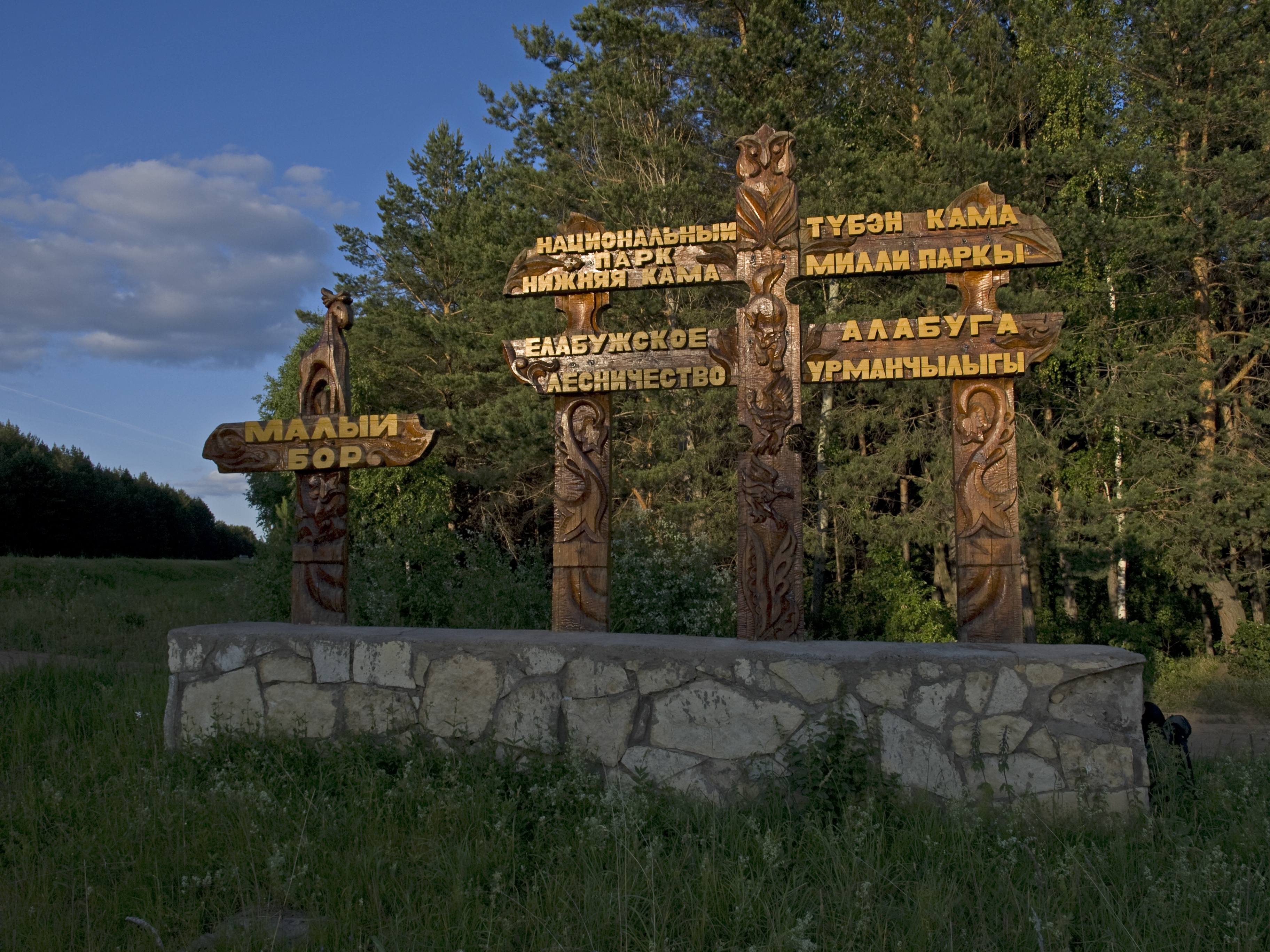 Maly Bor, Nizhnyaya Kama NP